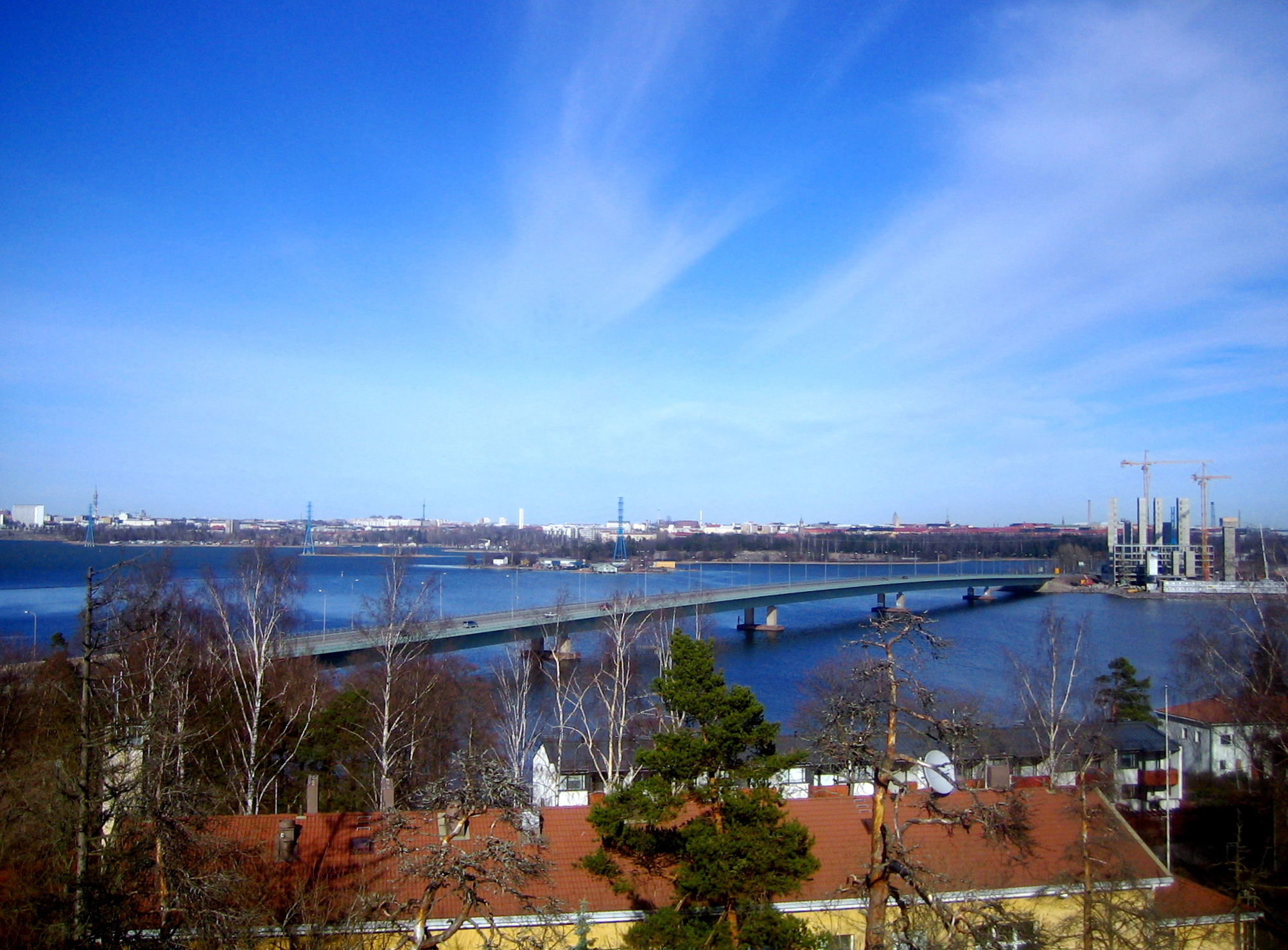 Lapinlahti bridge in Helsinki, Finland